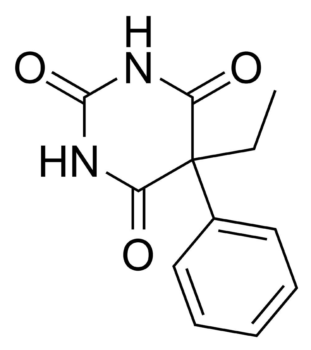 2D-structure of phenobarbital / phenobarbitone (Luminal)